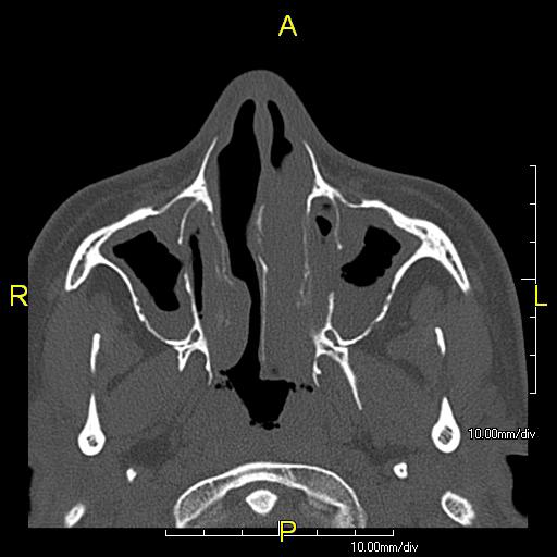 Axial CT image of a patient with Kartagener syndrome showing chronic sinus disease.